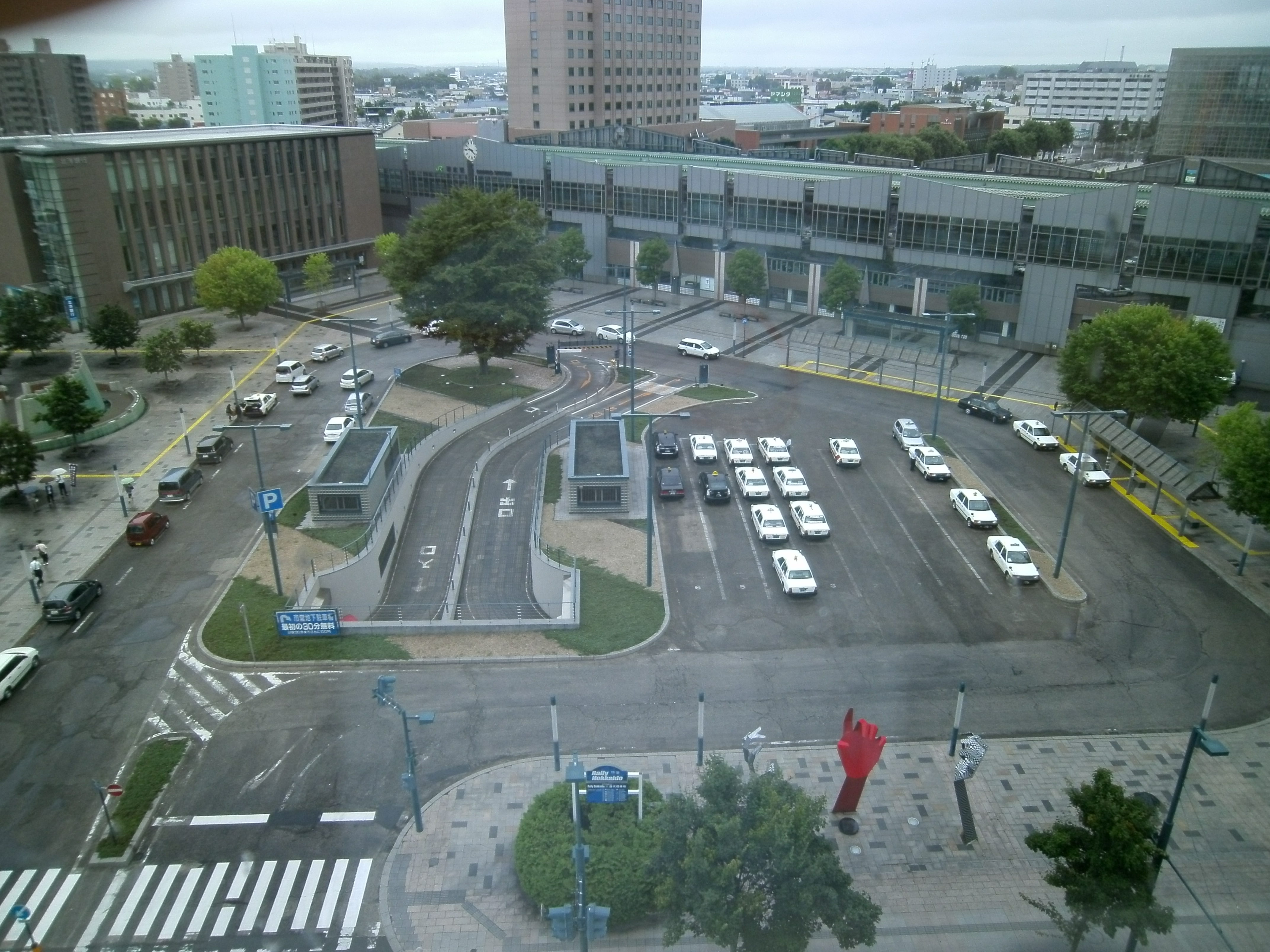 Obihiro Station forecourt